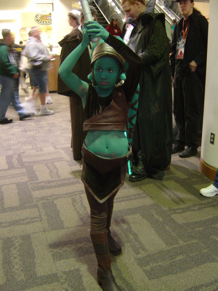 Star Wars Celebration III - Li'l Aayla Secura